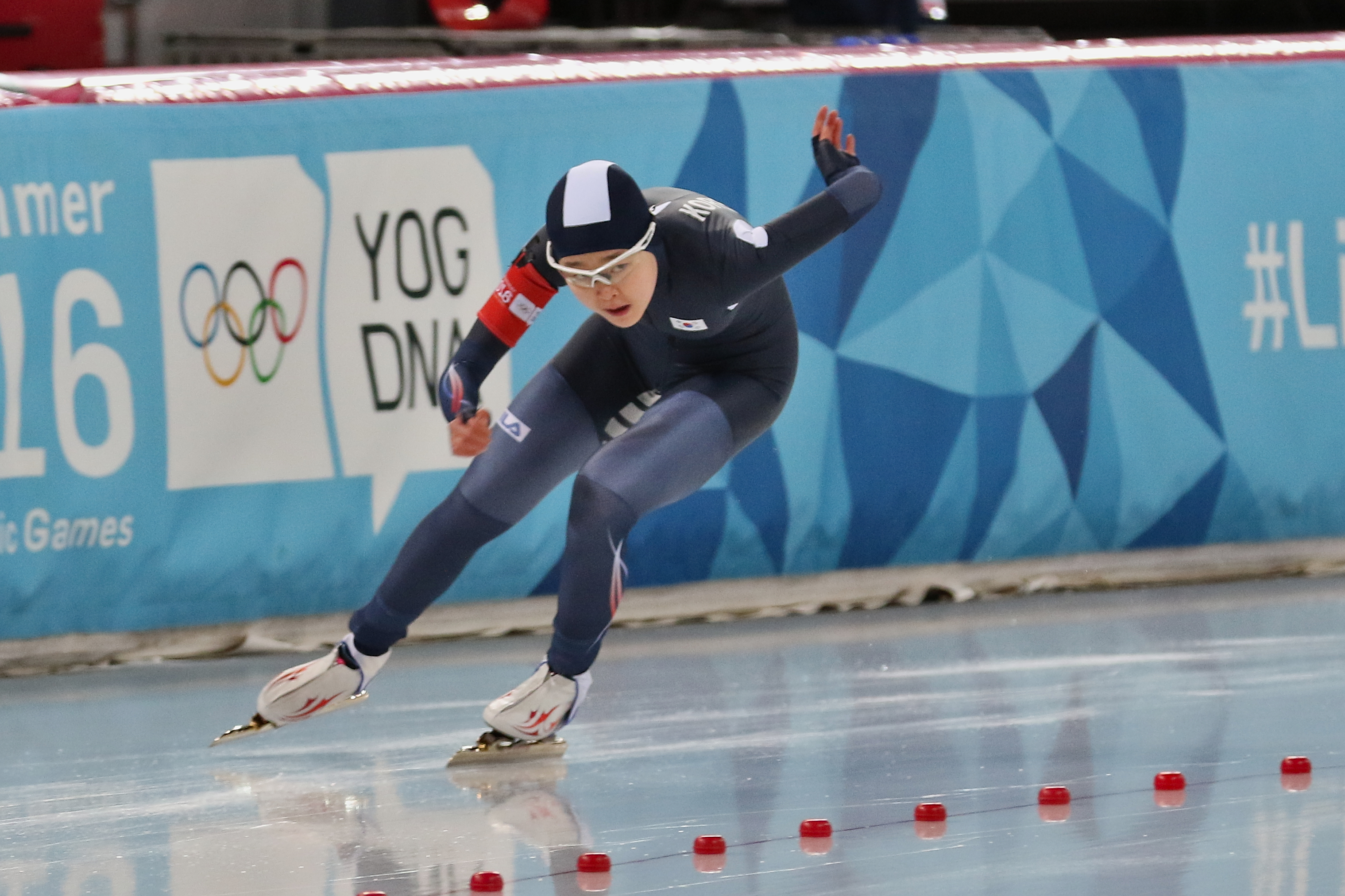 Lillehammer 2016 - Speed skating Ladies' 500m race 2 - Min Sun Kim